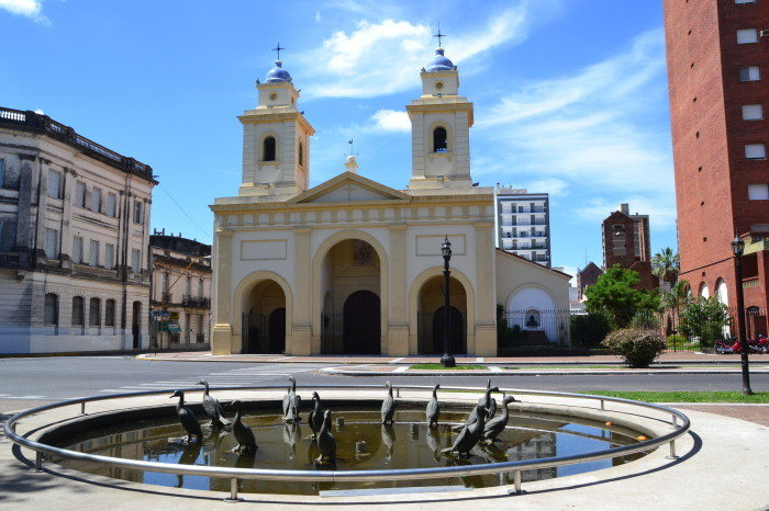 In front of the Metropolitan Cathedral Todos los Santos, in the morning.